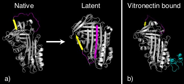 combination of pai-1/pai-1/vitronectin